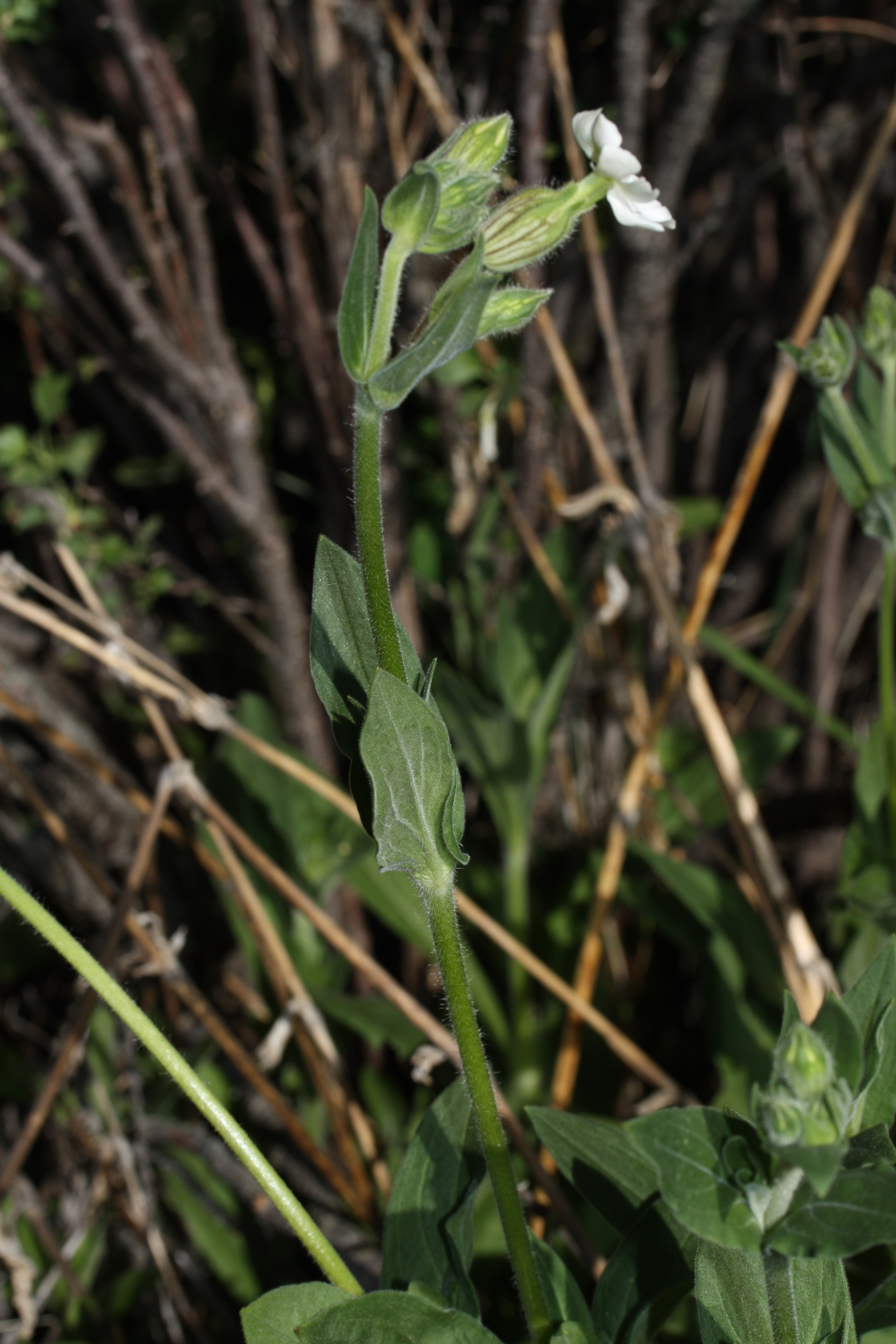 Bladder Campion, White Campion